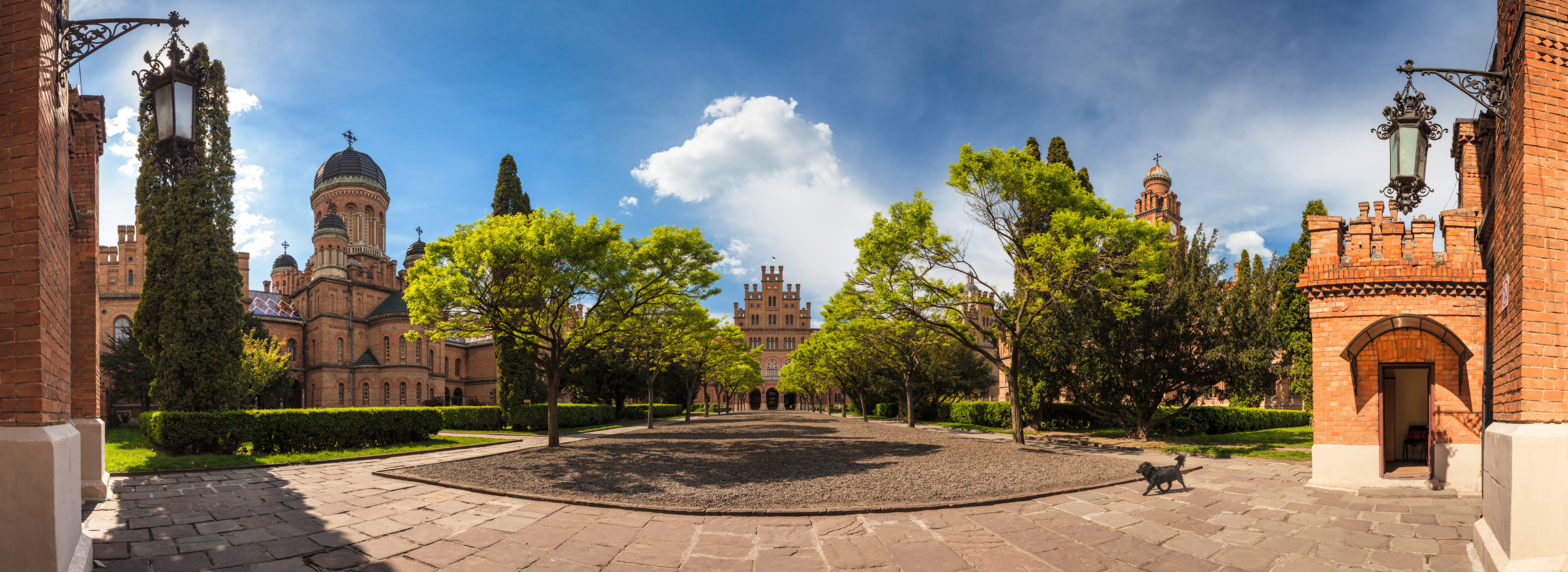 Residence of Bukovinian and Dalmatian Metropolitans